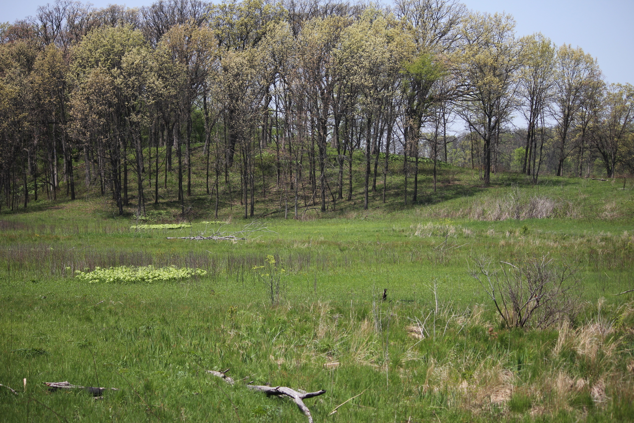 Nachusa Grasslands in the spring of 2016